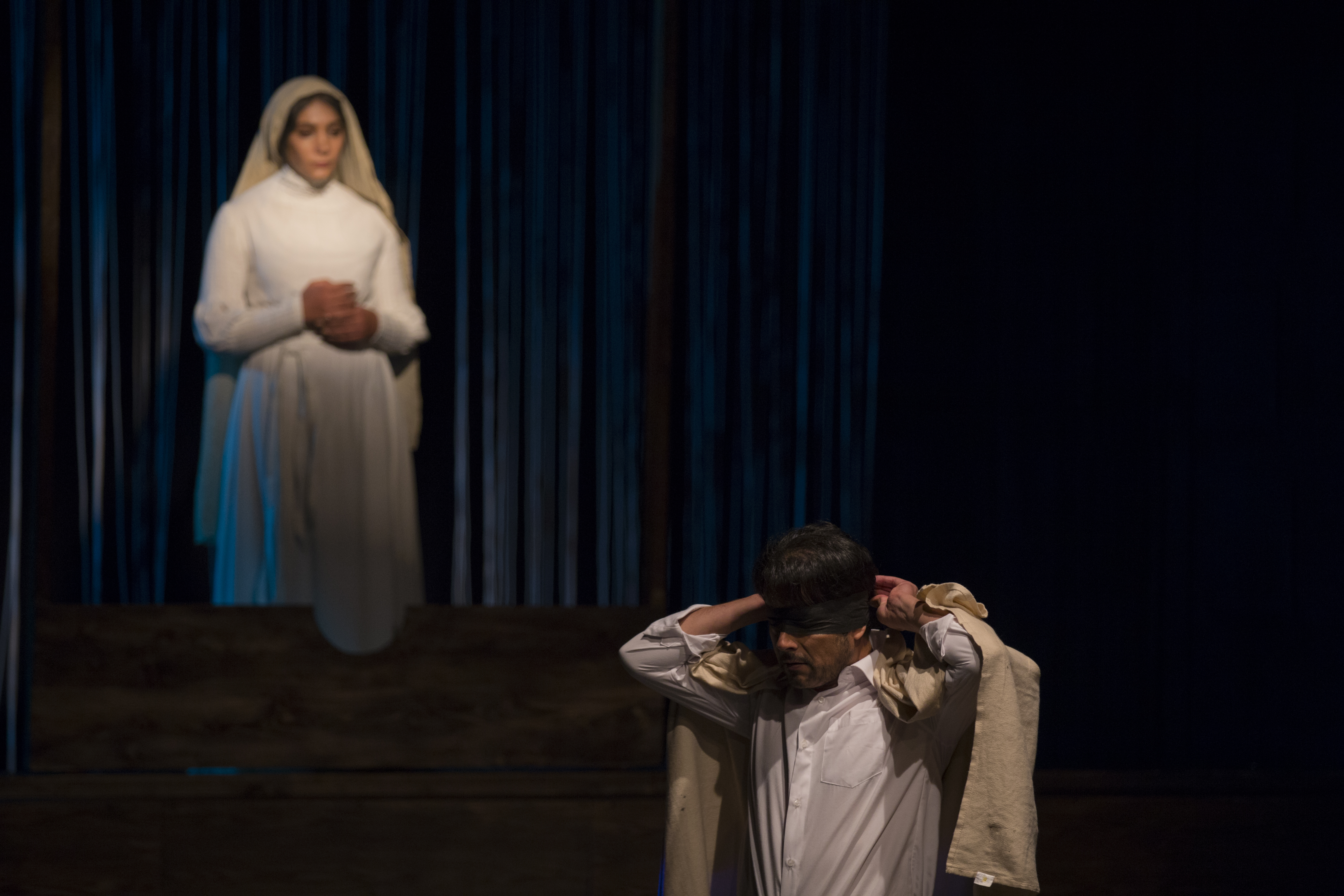 L’Étranger is a 1942 novel by French author Albert Camus. Its theme and outlook are often cited as examples of Camus' philosophy of the absurd and existentialism, though Camus personally rejected the latter label.